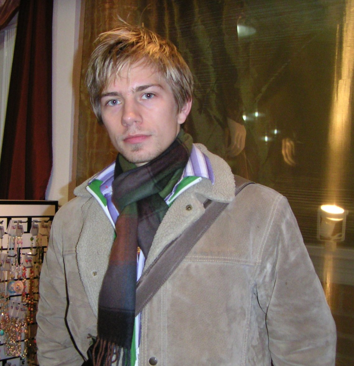 Casey Serin Nov 2006 (from